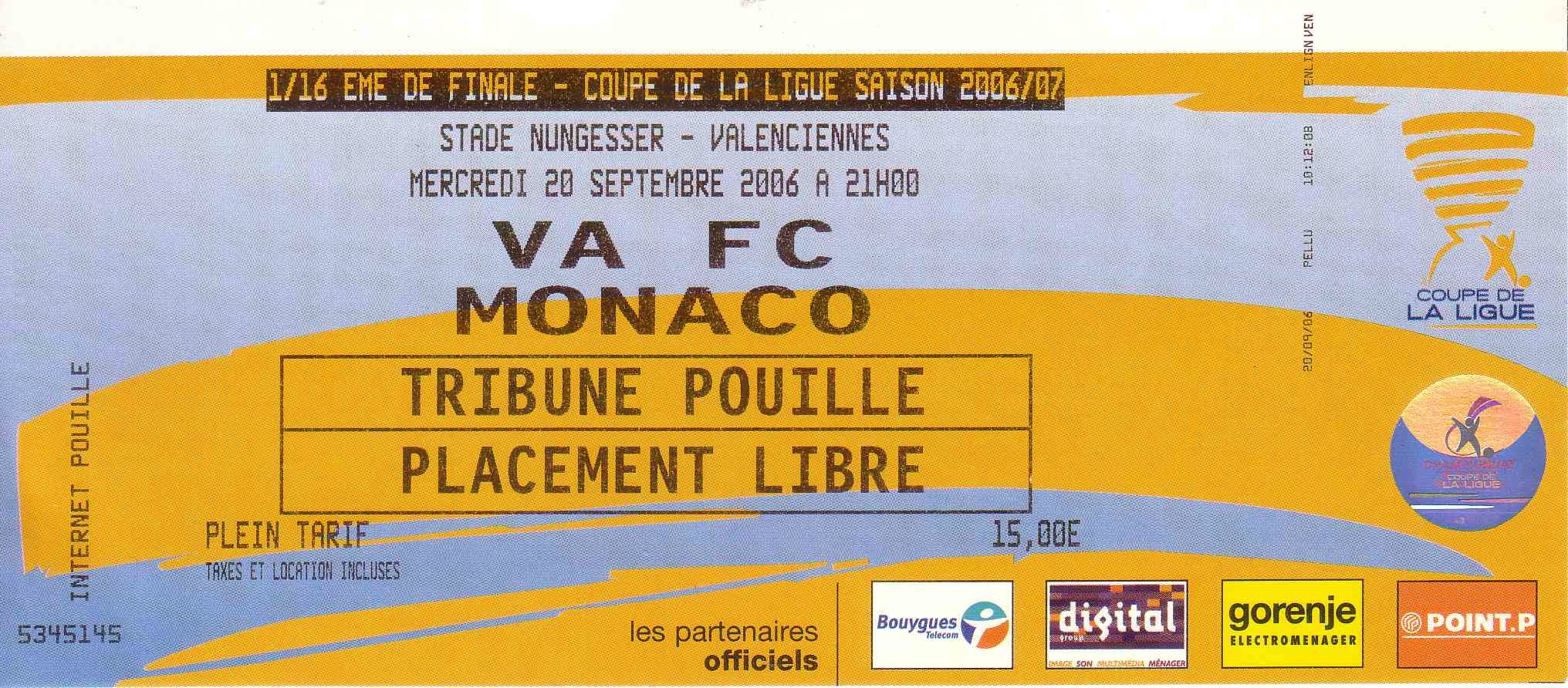 2006.09.20 Valenciennes vs Monaco